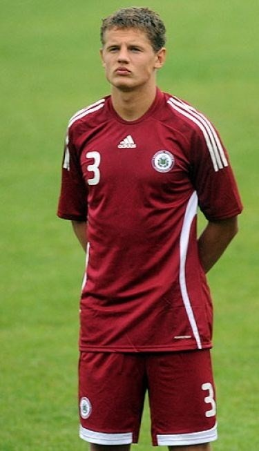 Kaspars Dubra, Latvian football player.